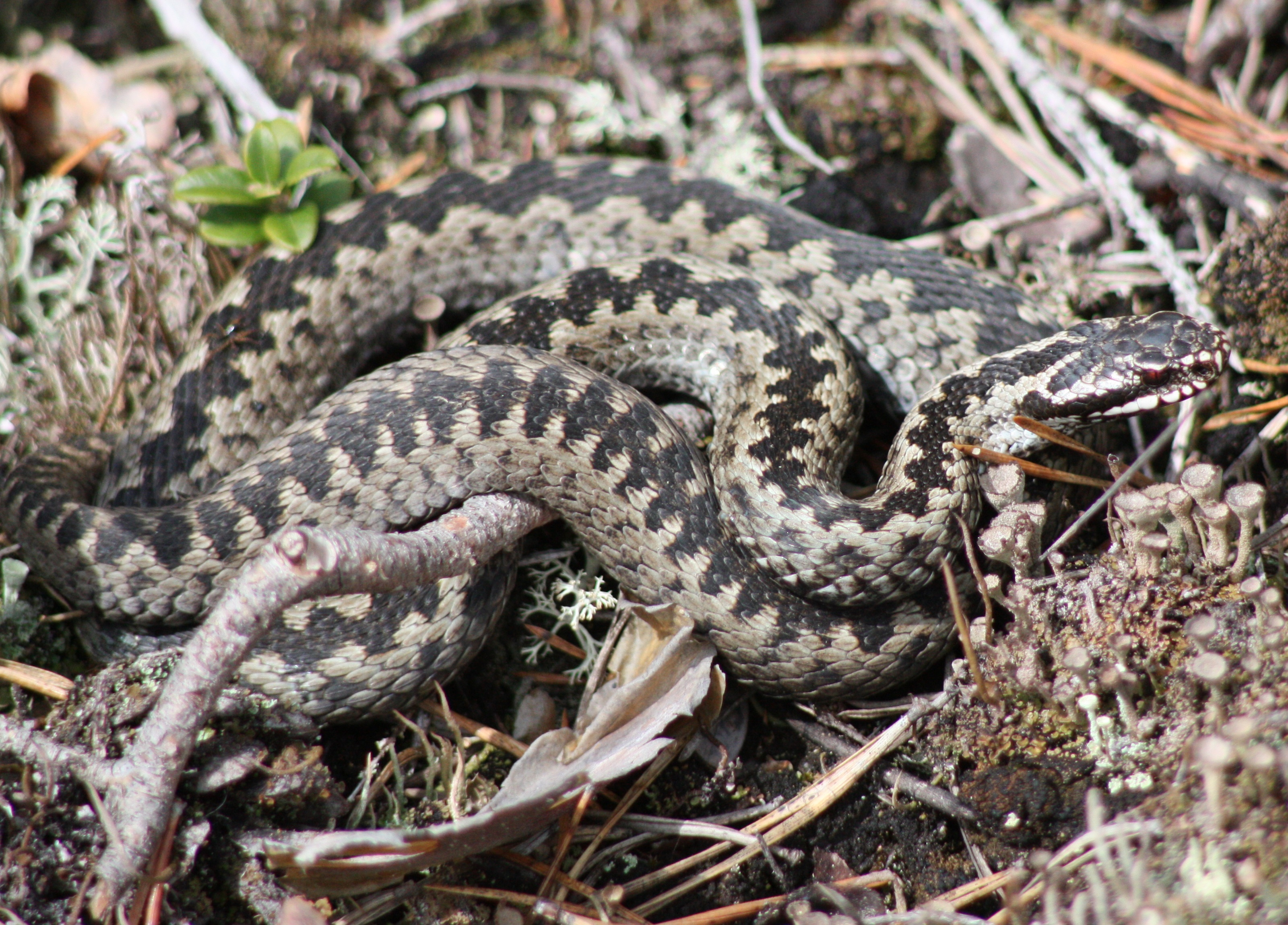 Crossed Viper (Vipera berus) in a forest glade in Varepudas in Haukipudas, Finland.